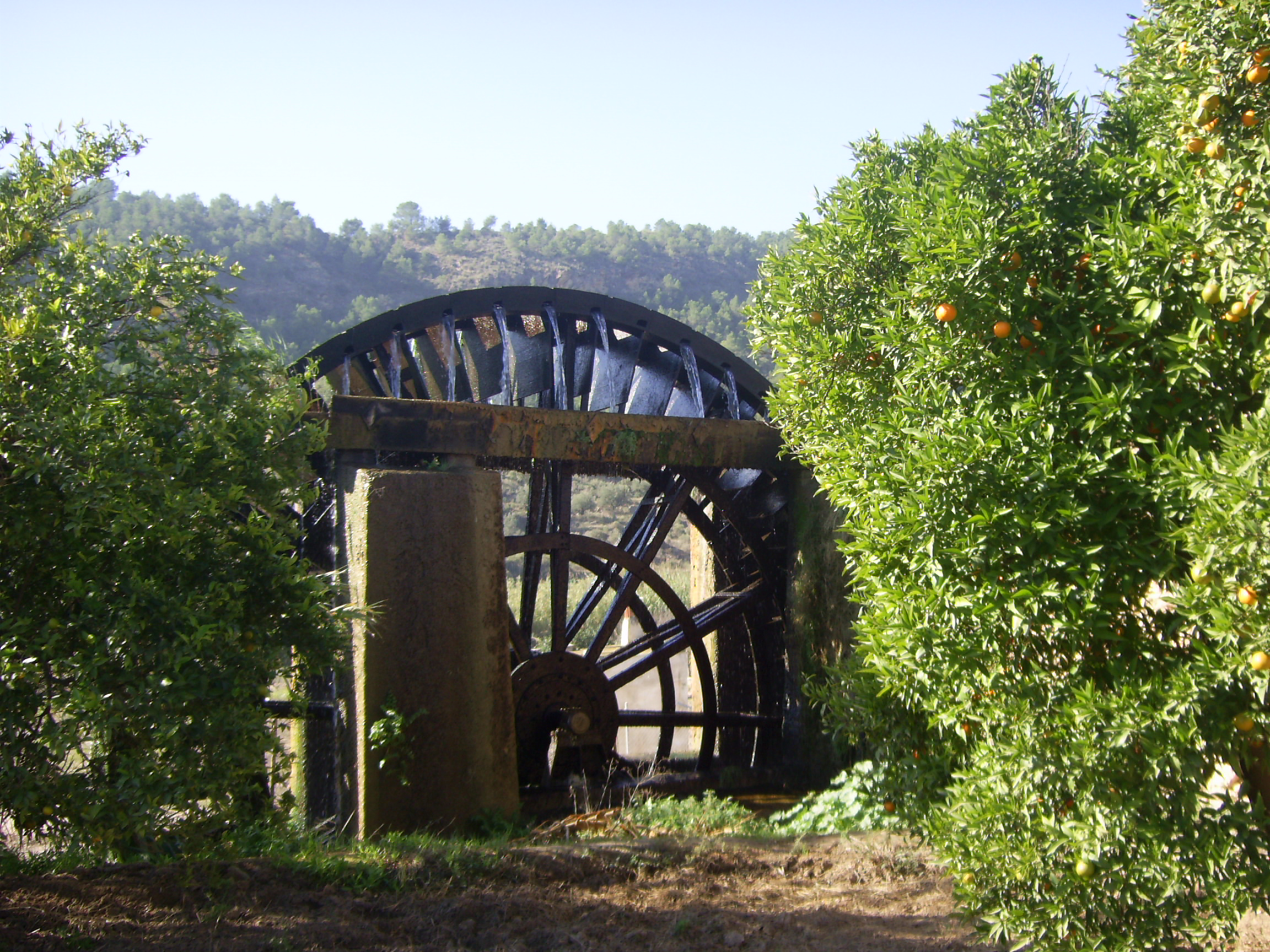 Waterwheel near Abaran - Murcia - Spain